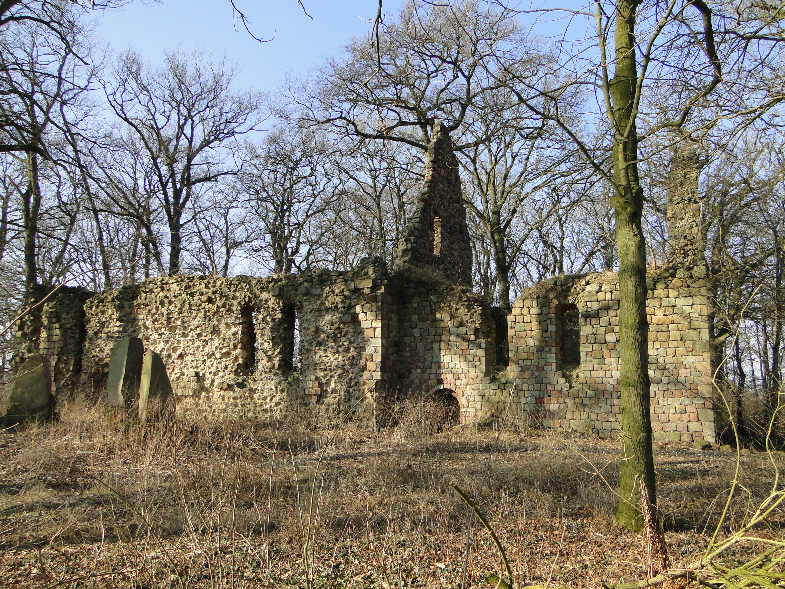 Church ruin in Dambeck, district Mecklenburgische Seenplatte, Mecklenburg-Vorpommern, Germany